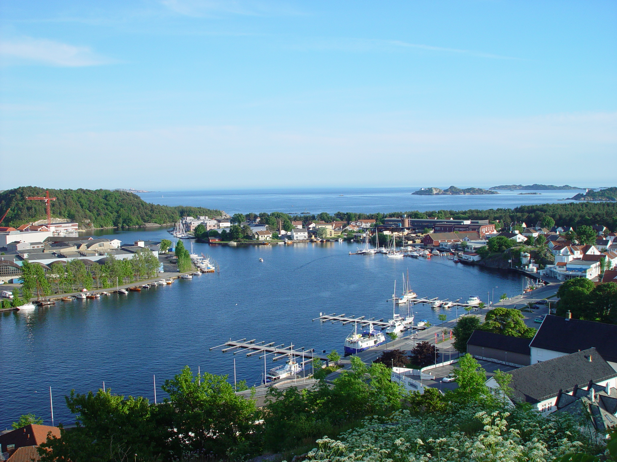 Port of Mandal, Norway